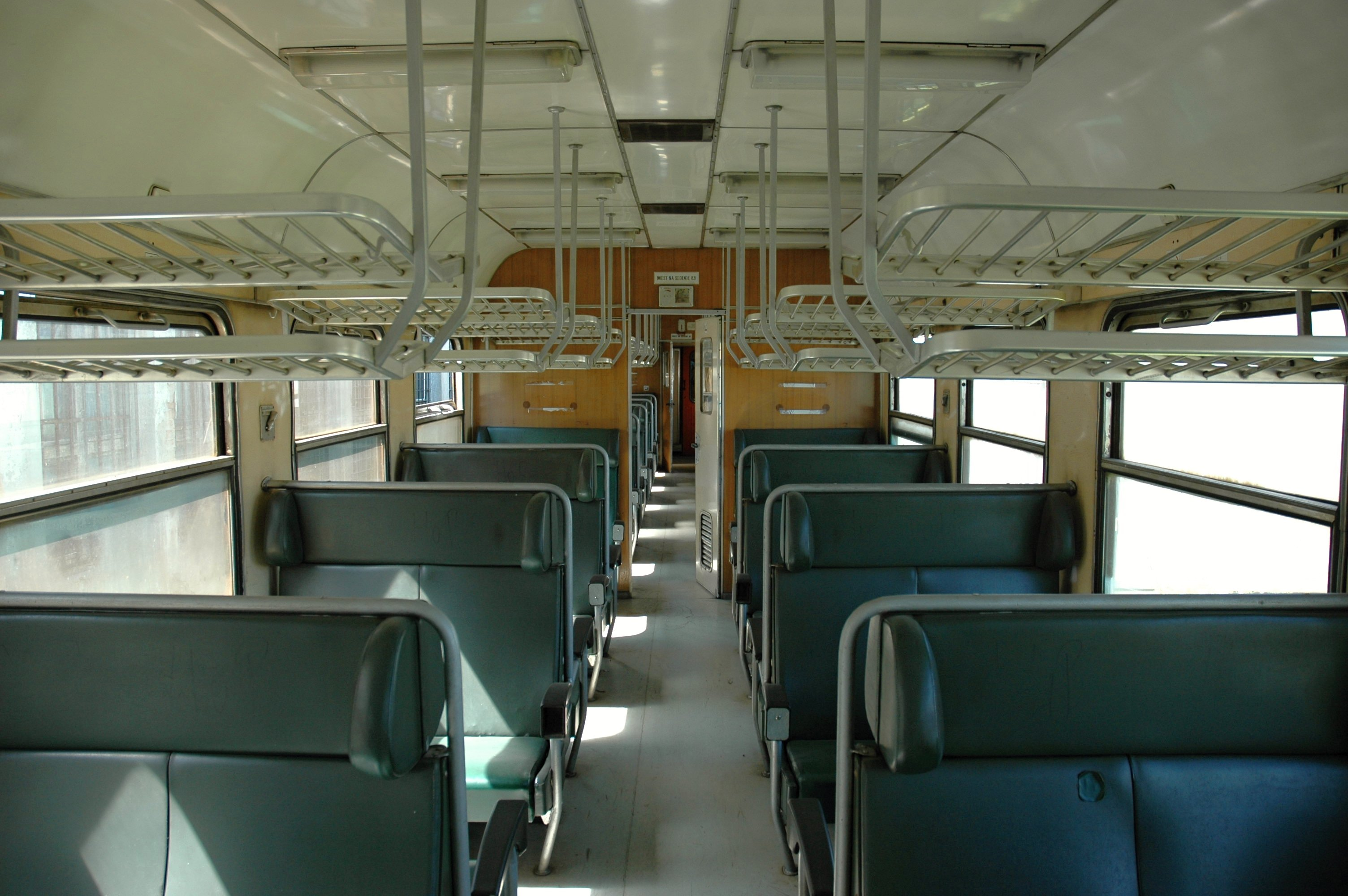 Passenger coach Class Bh ZSSK, TOOŽ railway siding, Liptovský Mikuláš, Slovakia